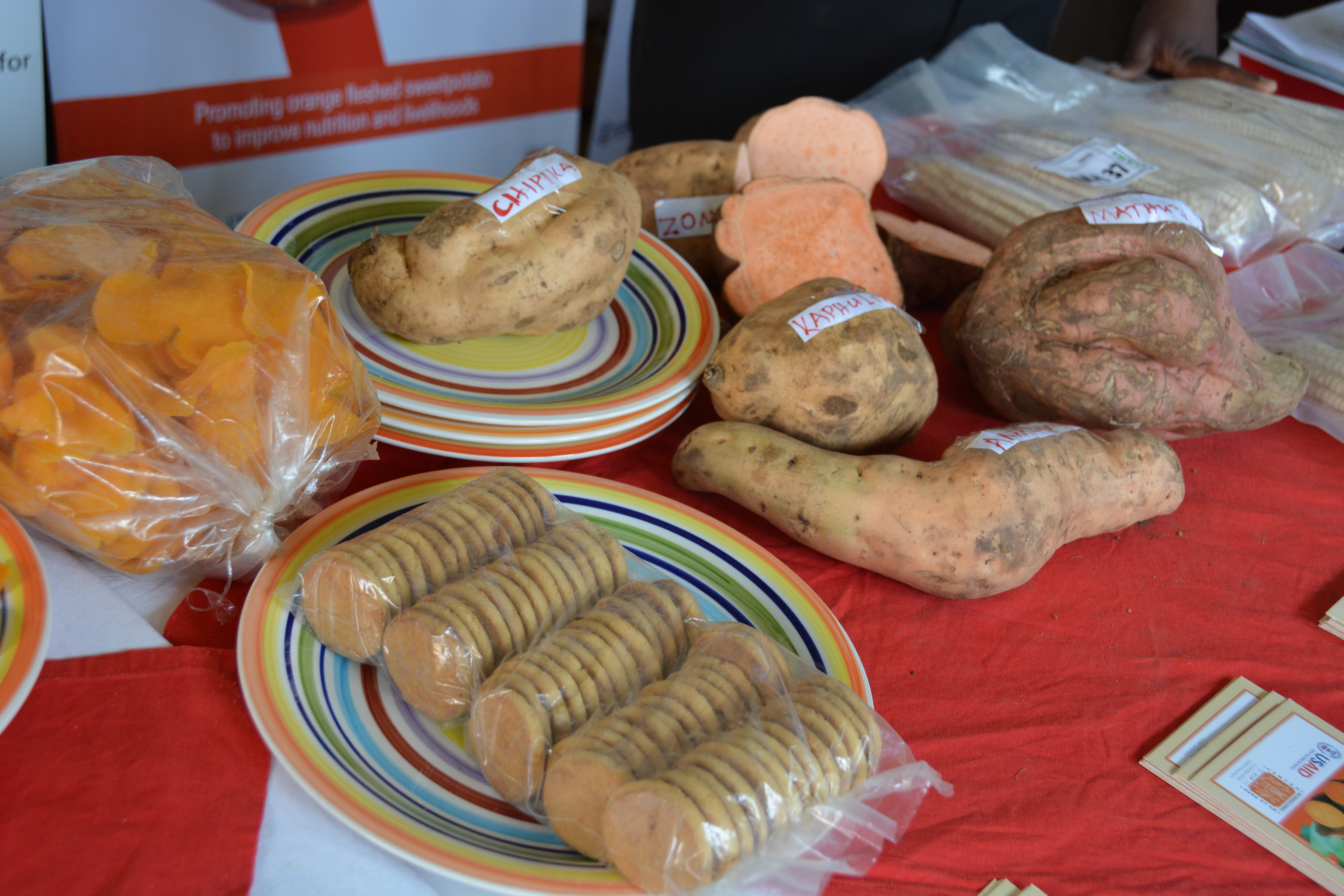 In Malawi, the Feed the Future initiative invests in the groundnut, soya and orange-fleshed sweet potato value chains to promote nutrition for lactating mothers and Under 5 children. Photo: Kady Chiu/USAID